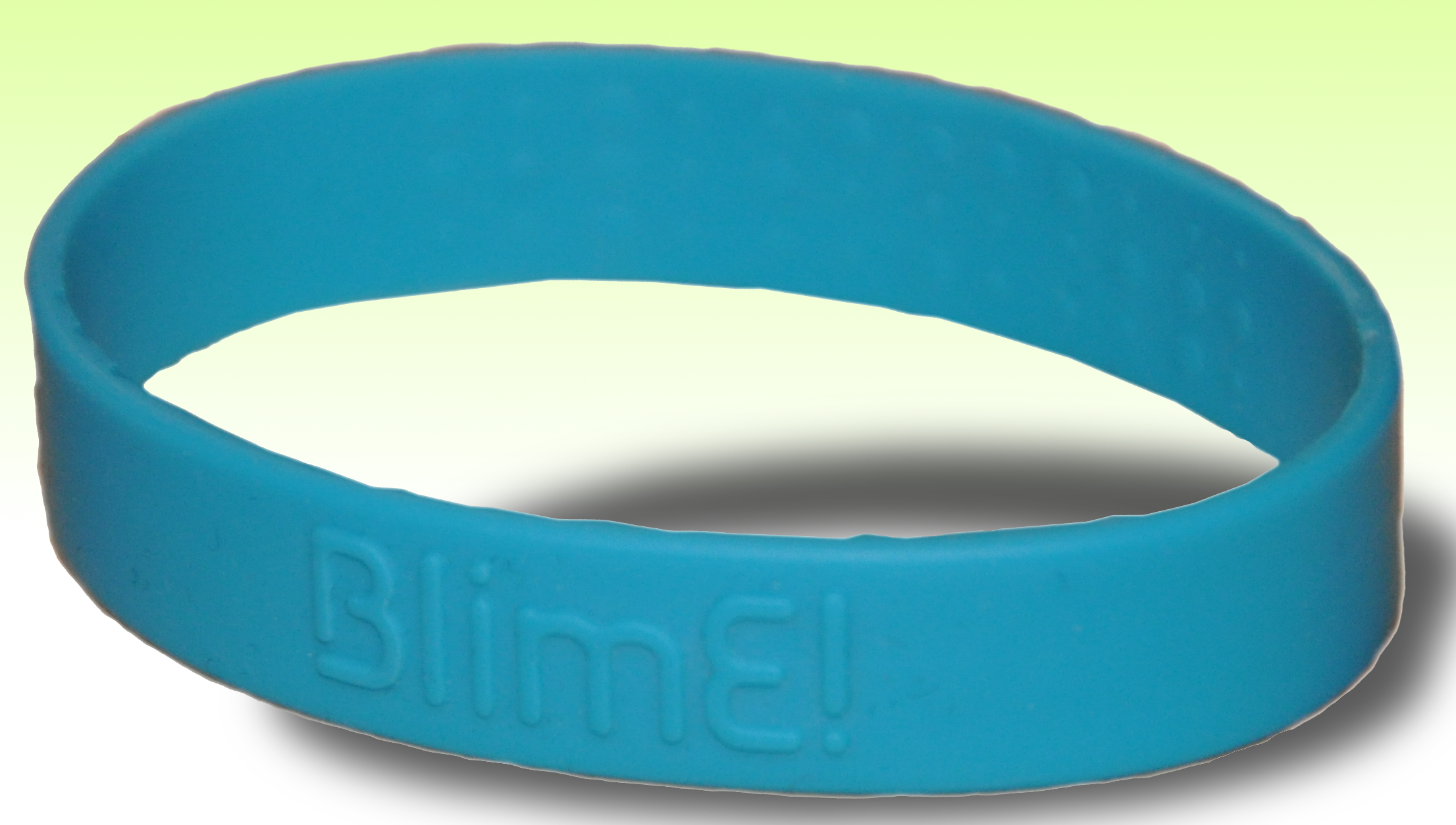 BlimE from NRK